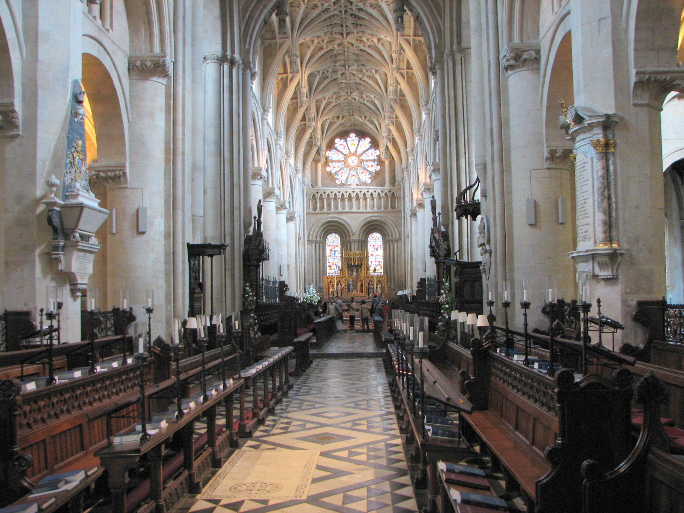 Nave of Christ Church Cathedral, Oxford, England